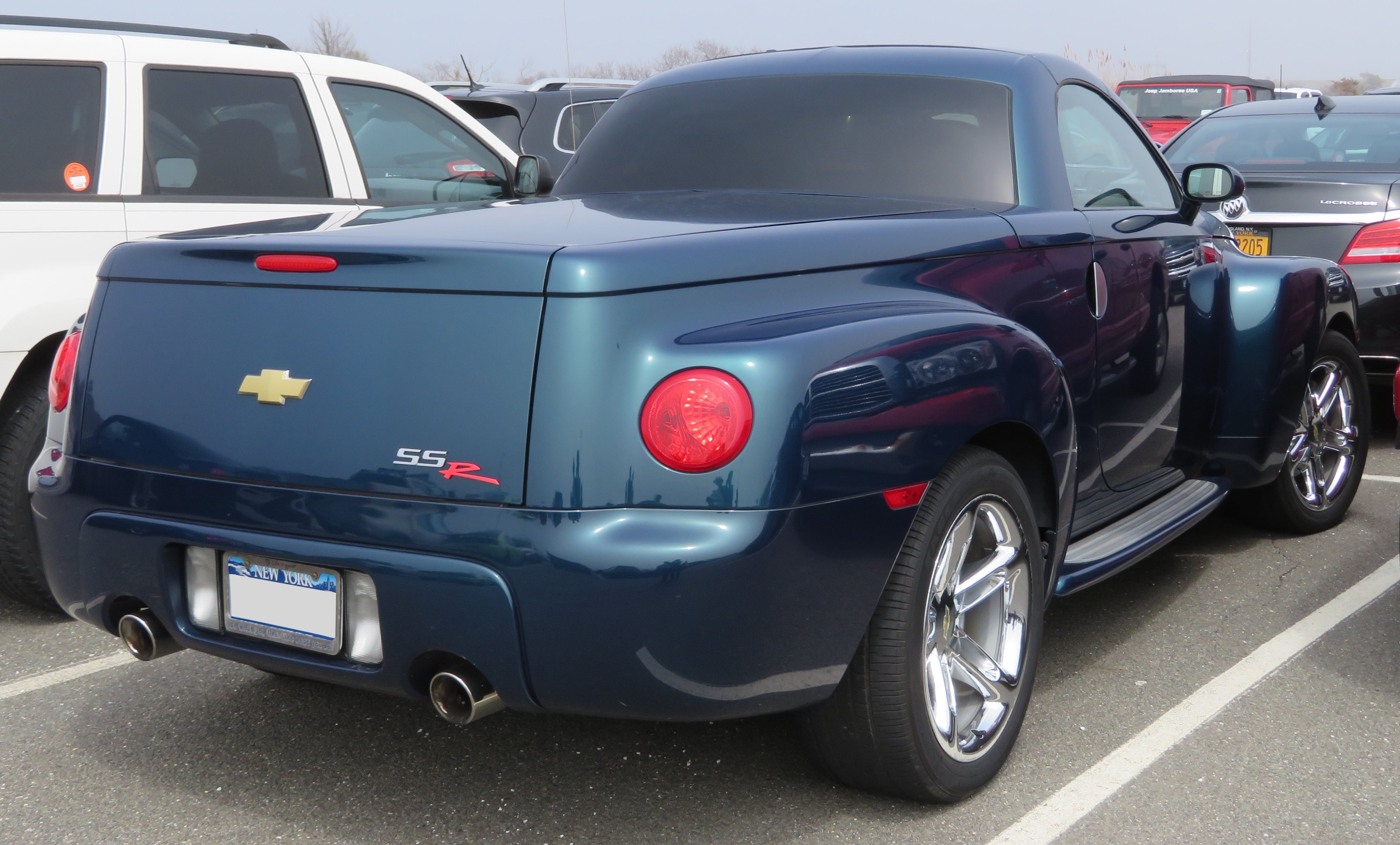 In Long Island, New York